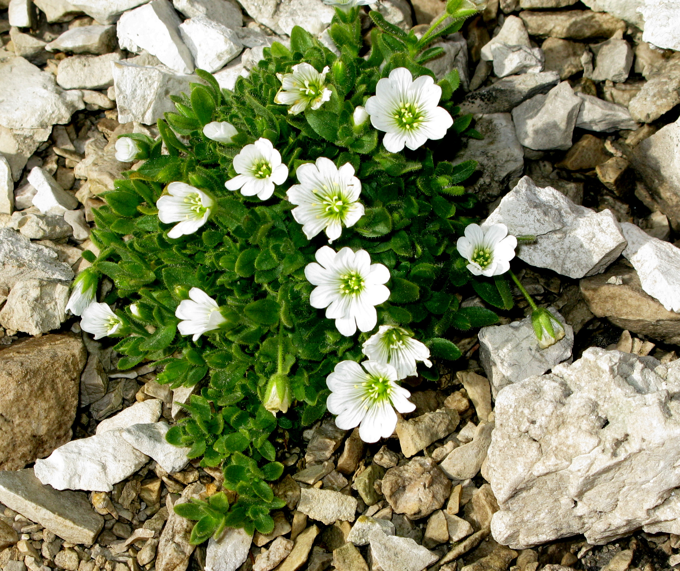 alpine mouse-ear